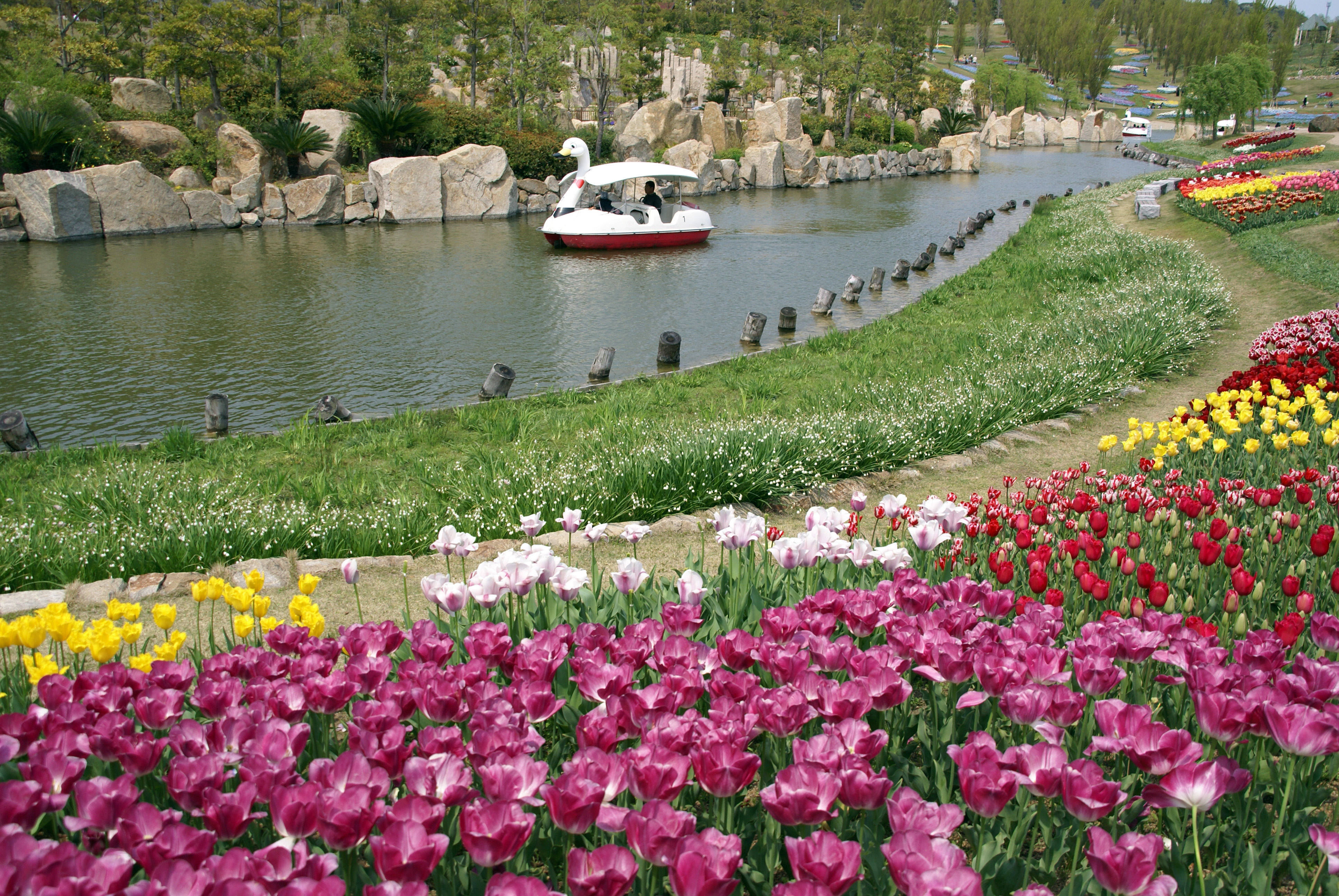 Akashi Kaikyo National Government Park in Awaji, Hyogo prefecture, Japan